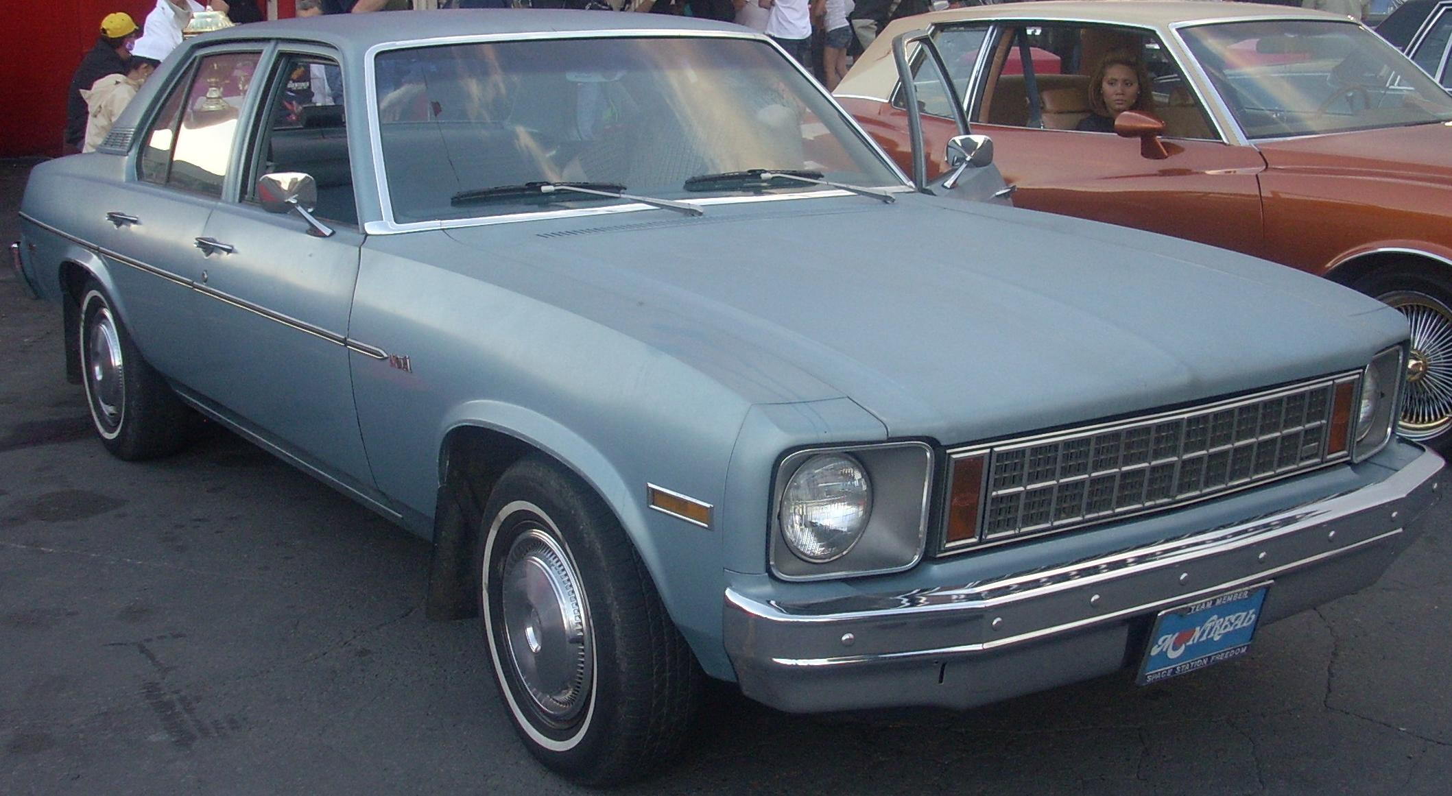 1976–1977 Chevrolet Nova photographed in Montreal, at Gibeau Orange Julep.